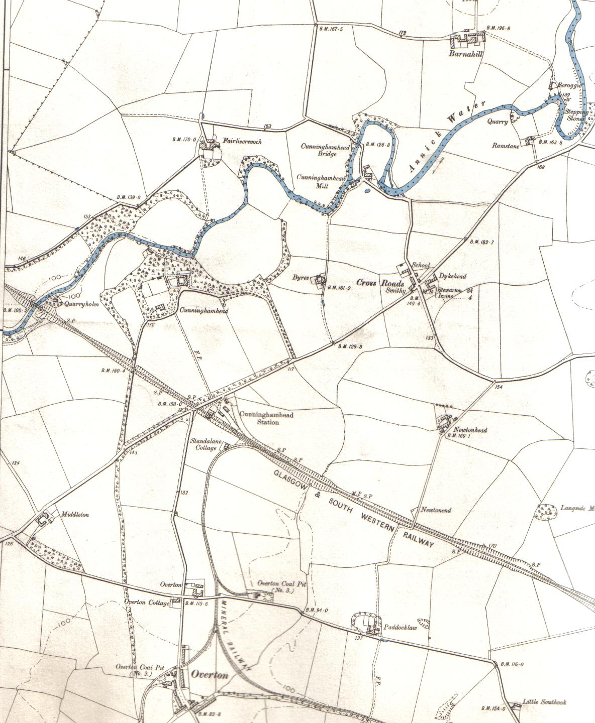 A map of the Overtoun area in North Ayrshire, circa 1897.